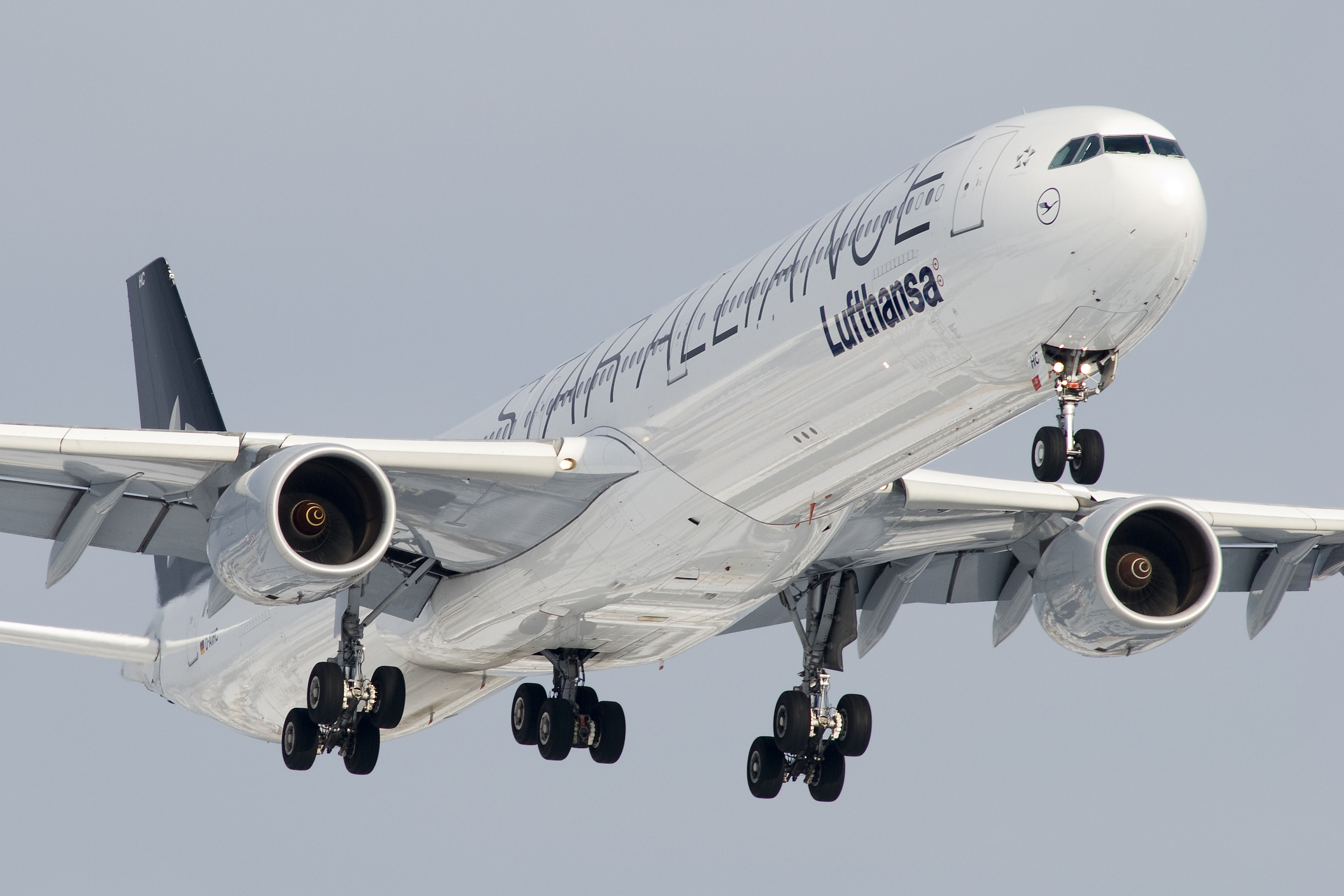 Lufthansa Airbus A340-600 on short final, Toronto Pearson runway 05